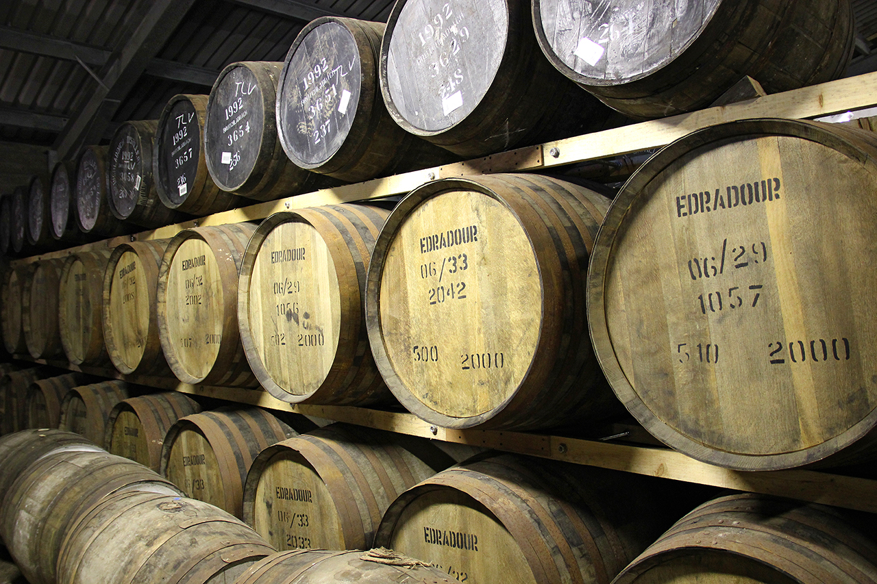 Edradour Distillery, Casks in Warehouse